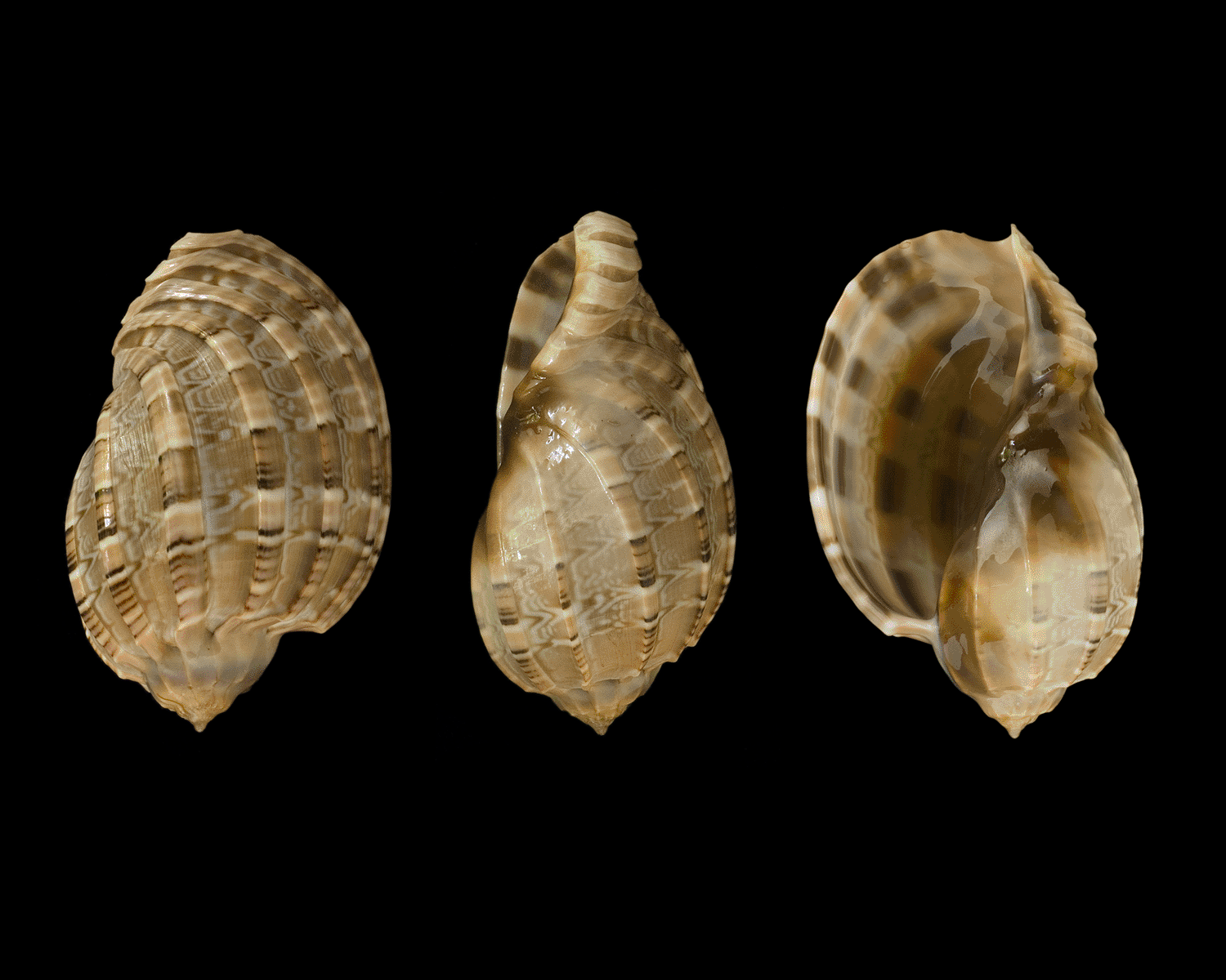 Harpa sp.